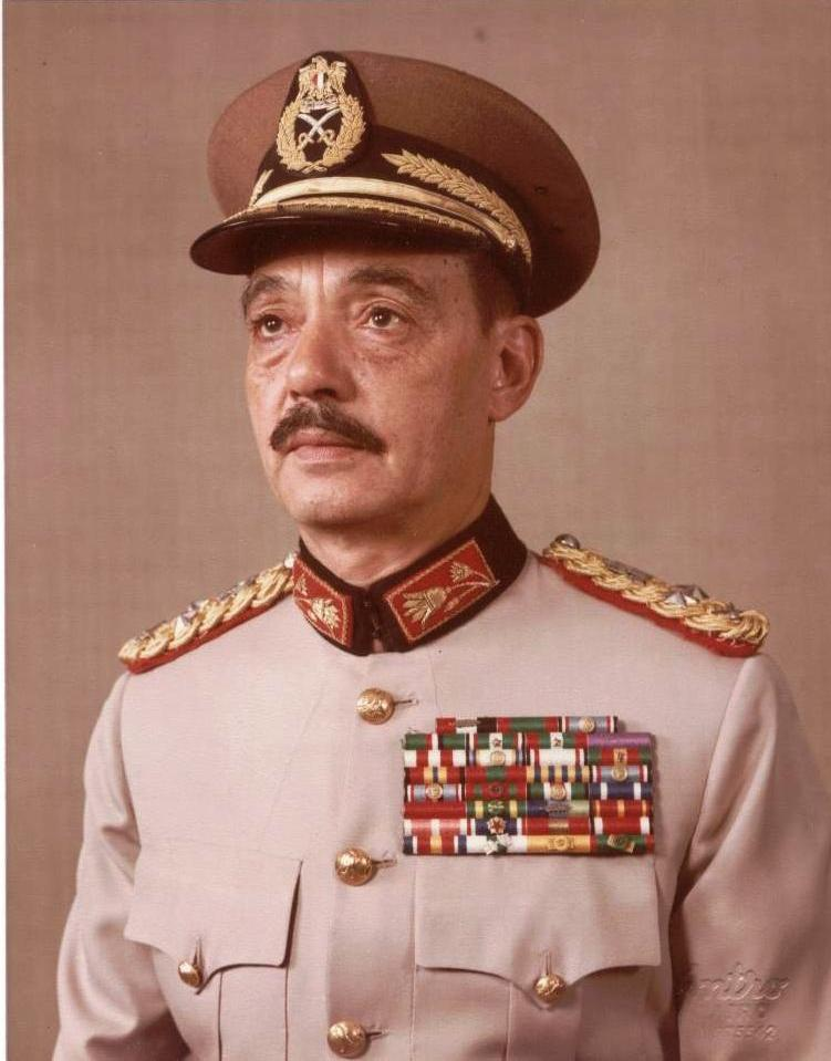 Field Marshal / Mohamed Abdel Ghani el-Gamasy, 24th Egyptian defense minister and Director of operations for all forces participating in the 1973 October War